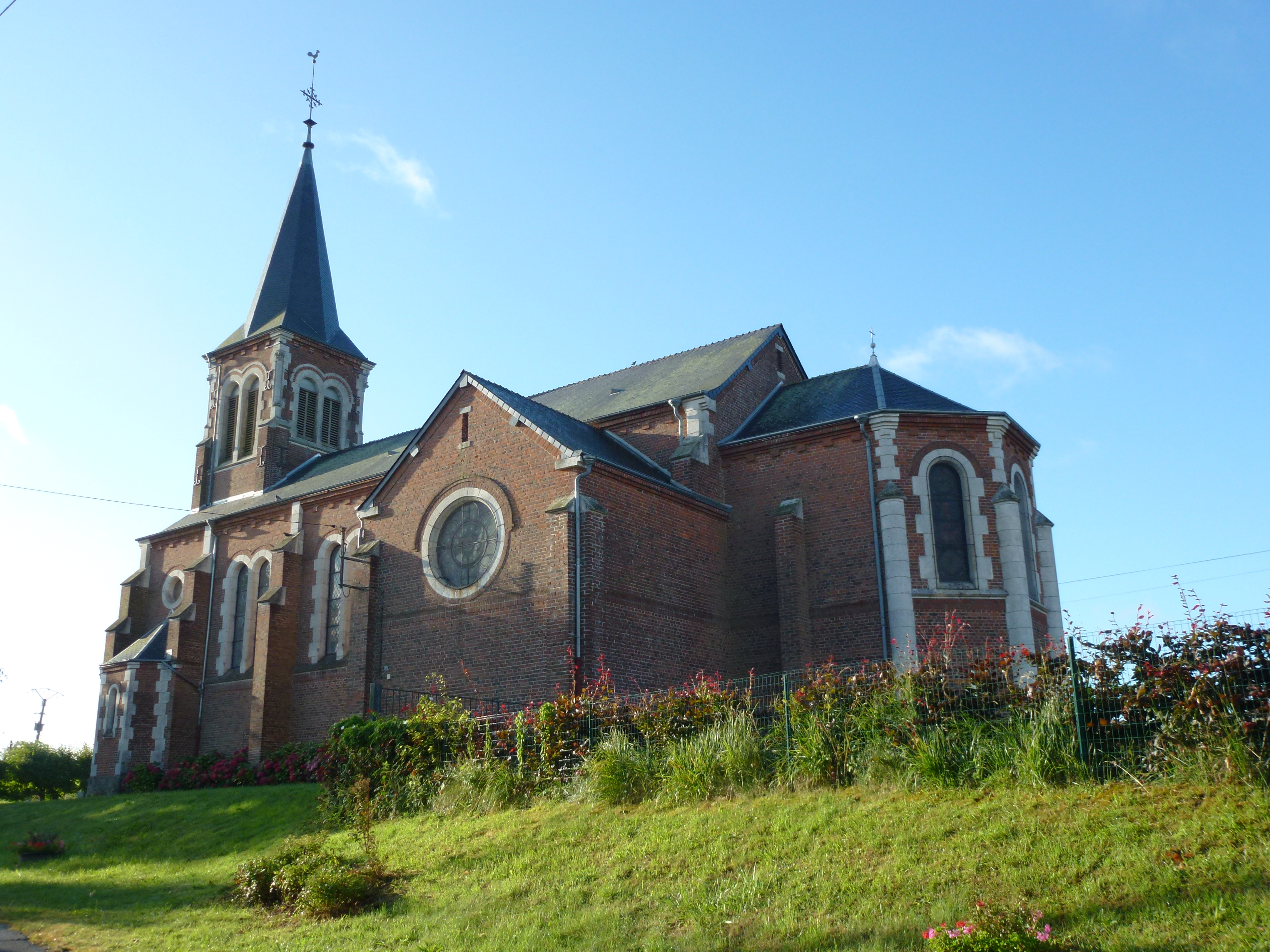 Grandchamp (Ardennes) église Saint-Thomas de Canterbury